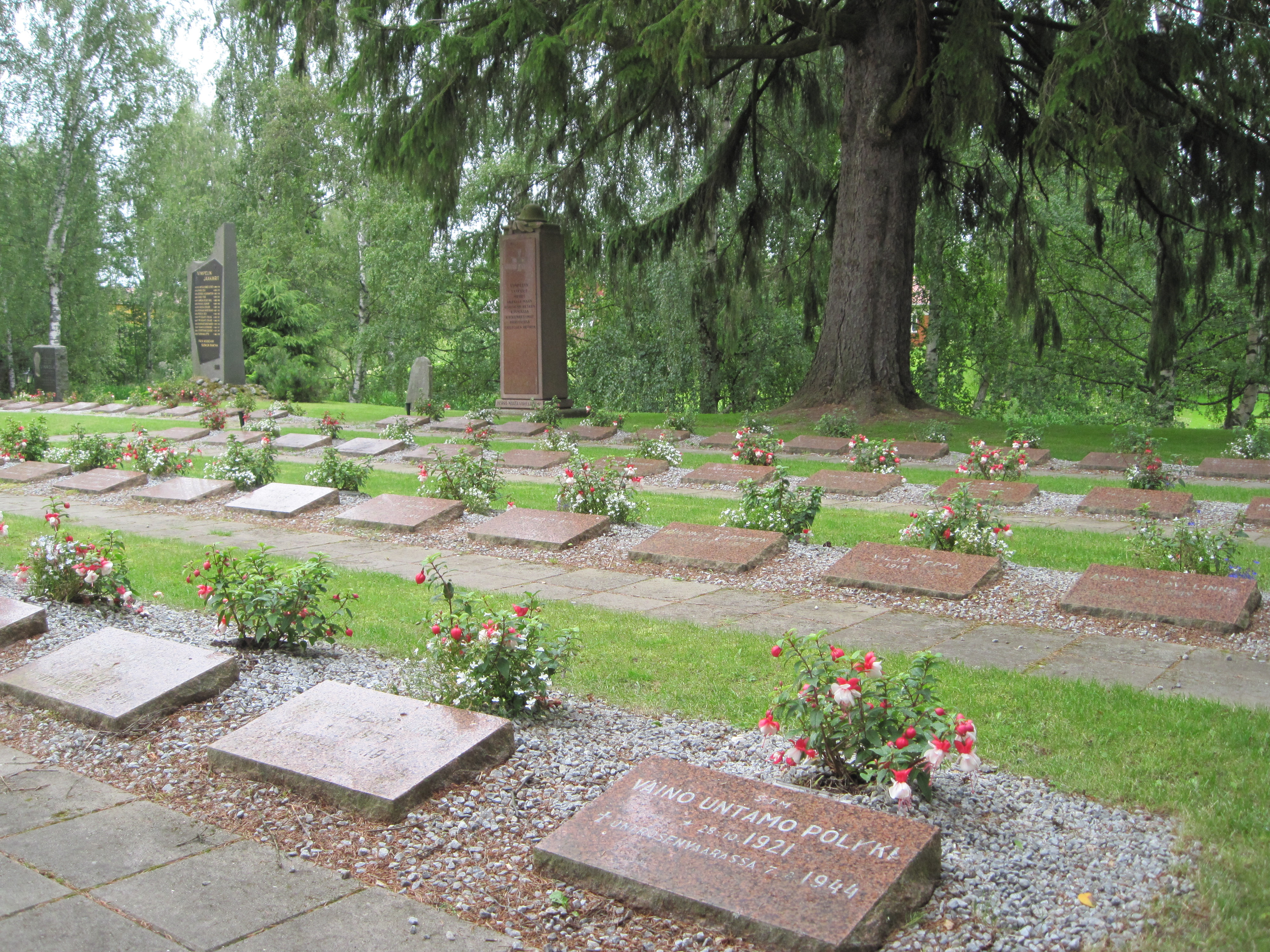 Military cemetary at church in Vimpeli, Finland